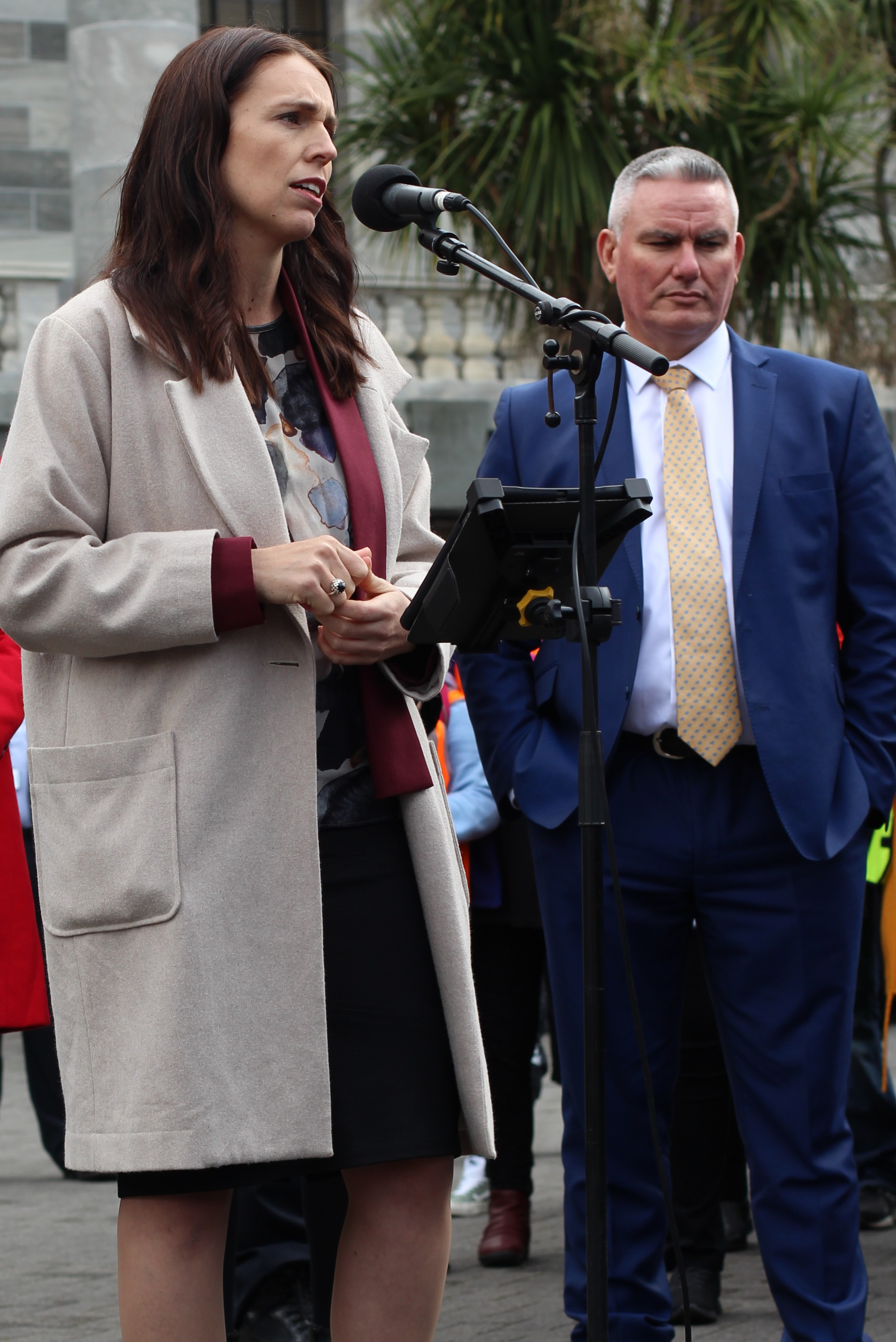 Jacinda Ardern, Prime Minister of New Zealand, at NZEI Te Riu Roa strike rally on the steps of Parliament 15th August 2018. Labour Party deputy leader Kelvin Davis looks on.